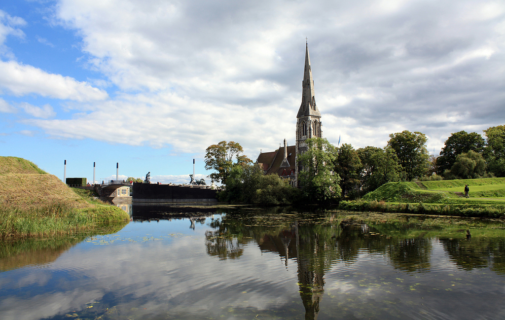 The moat around Kastellet in Copenhagen, Denmark with the Gefion Bridge and St. Alban's Church